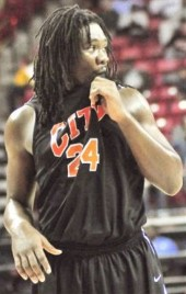 Charles Tapper looks on for instruction during a 2010 state tournament basketball game.